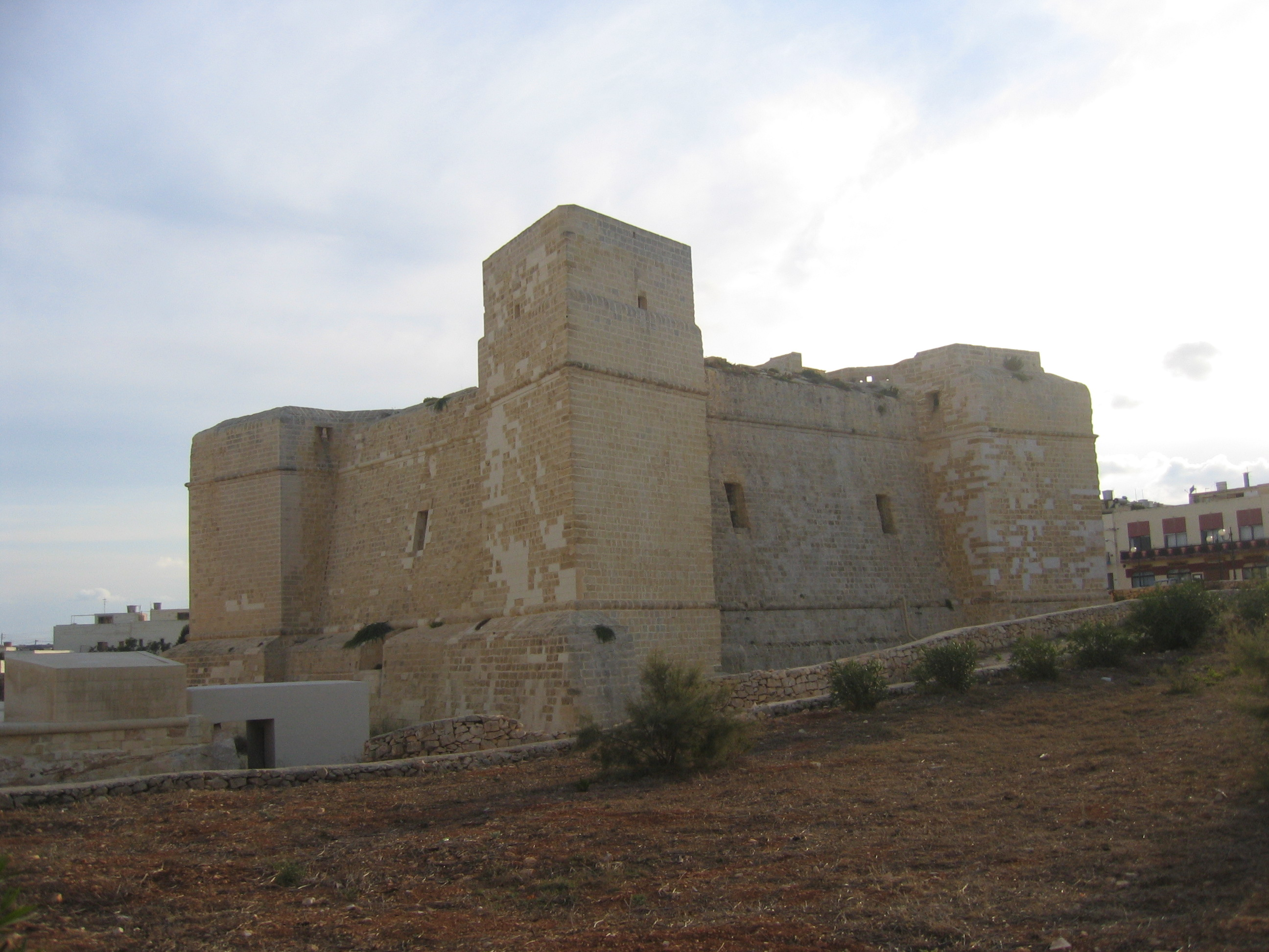 St Thomas Tower, Malta. North and east faces. Copyright H.J.Moyes